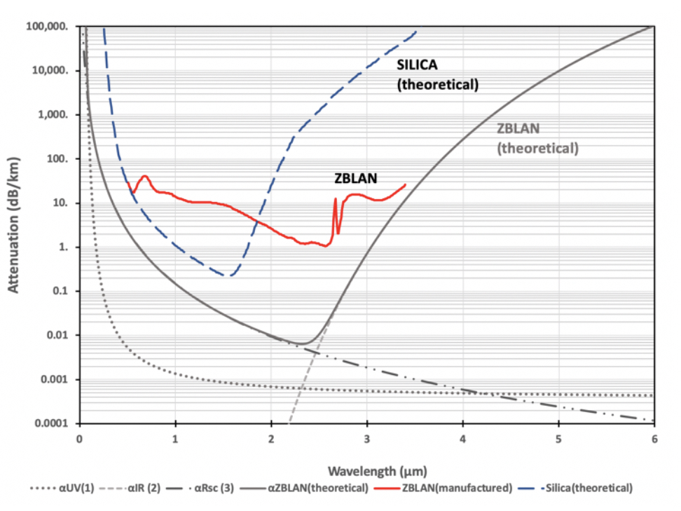 Theoretical loss spectra (attenuation, dB/km) for a typical ZBLAN optical fiber (solid gray line) as function of wavelength (microns). The major components to the attenuation, UV (dotted gray line), IR (dashed gray line) and Rayleigh scattering (dash-dotted gray line) are shown. For reference, the theoretical loss spectra for silica optical fiber (dashed blue line) and that of industry best manufactured ZBLAN (solid red line) are also included. ATTRIBUTION: Cozmuta et al, "Breaking the Silica Ceiling: ZBLAN based opportunities for photonics applications"[1]